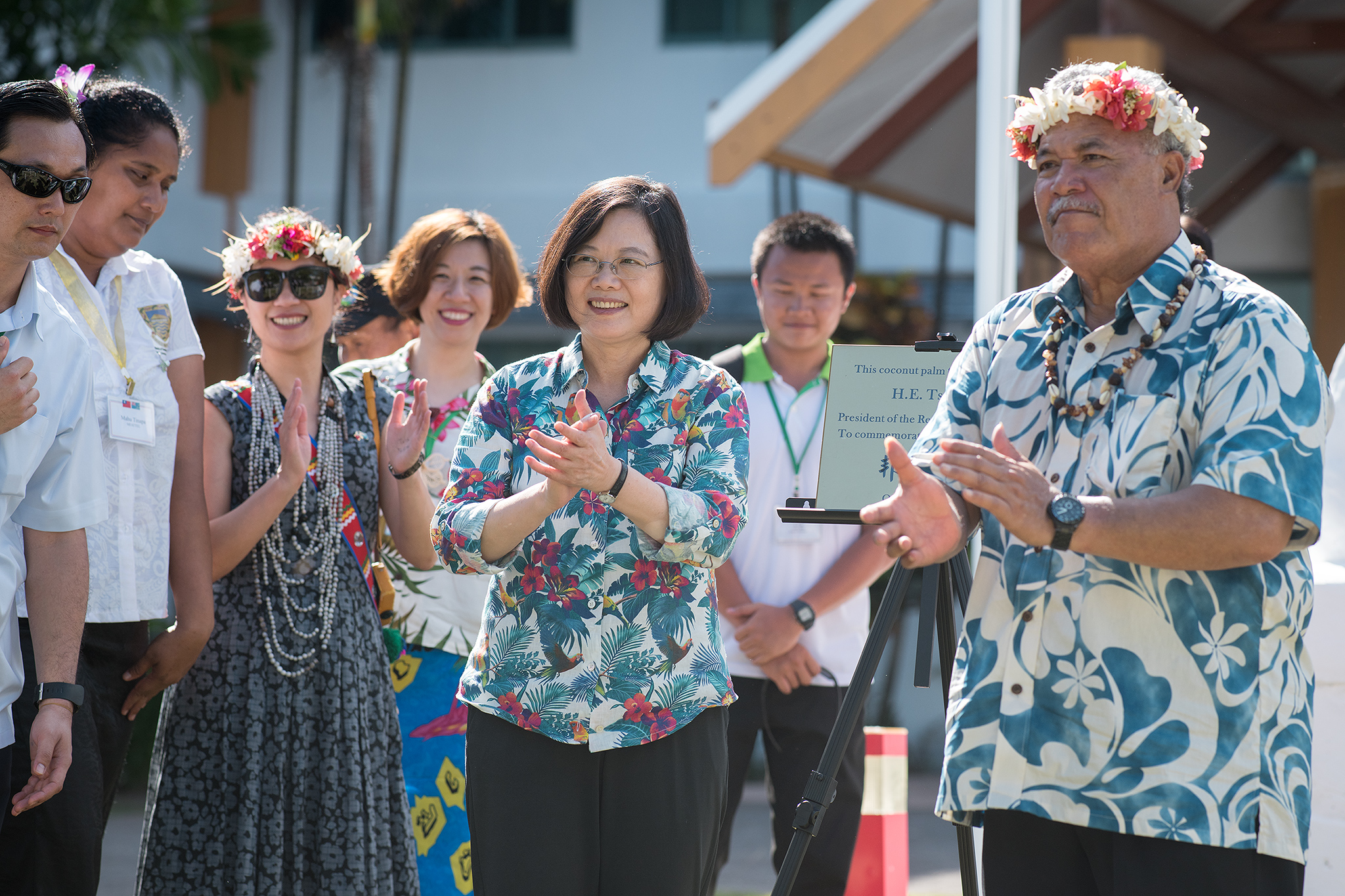 President Tsai and Tuvalu Prime Minister Sopoaga plant a coconut seedling. (2017/11/01) 授權方式及範圍：中華民國總統府│政府網站資料開放宣告 Authorization Method & Scope: Office of the President, Republic of China (Taiwan) | Government Website Open Information Announcement